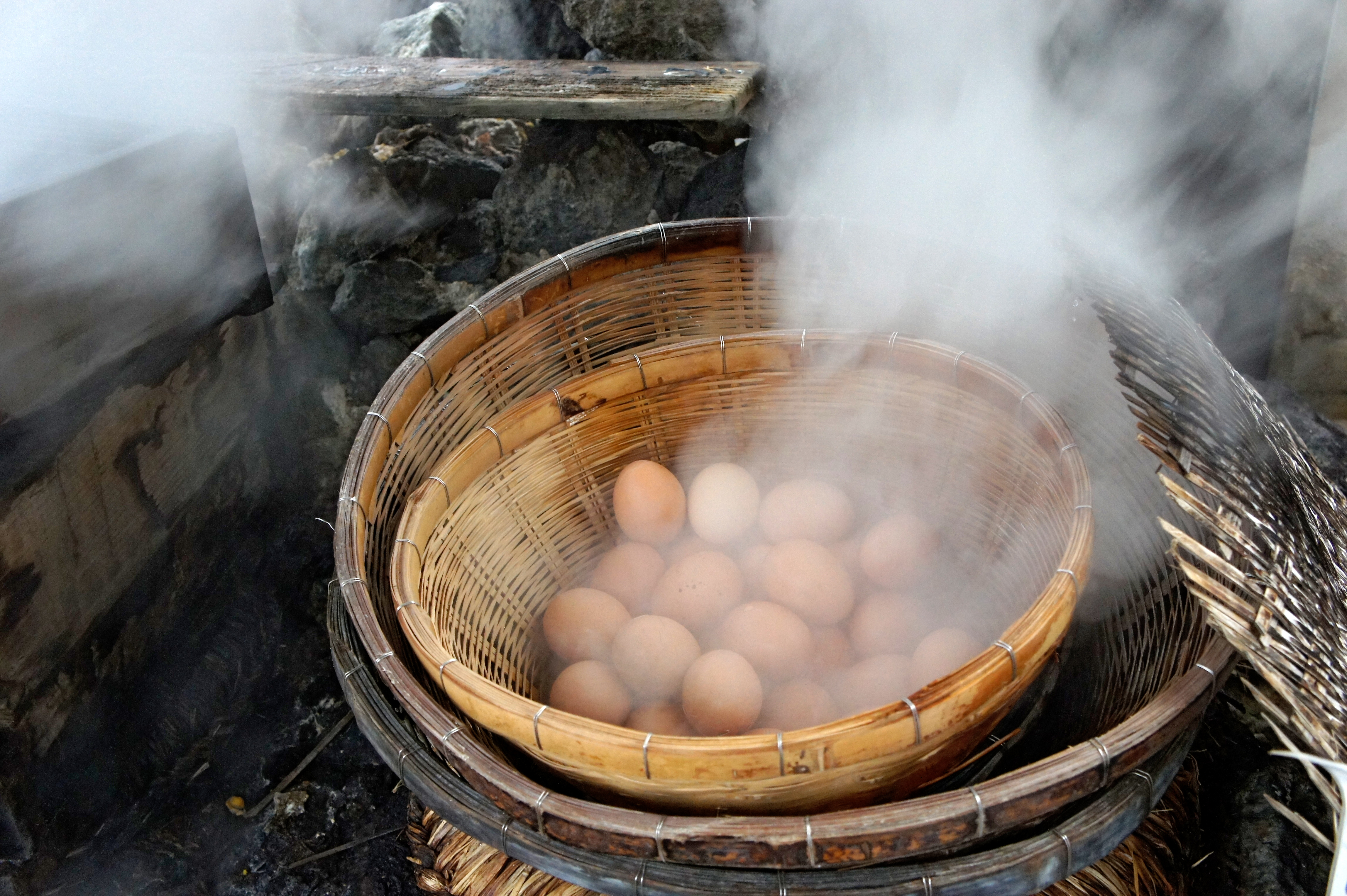 Maruo Onsen of Kirishima Onsens in Kirishima, Kagoshima prefecture, Japan.